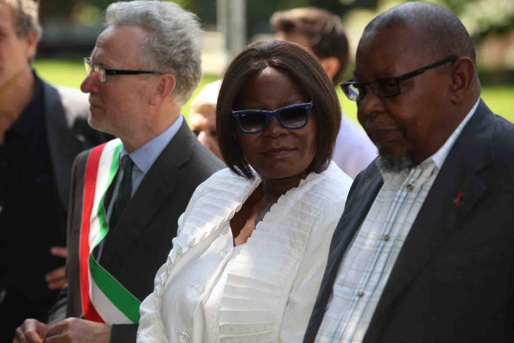 Ambassadors Nomatemba Tambo and Anthony Mongalo during the opening ceremony of Oliver Tambo Park in Reggio Emilia, Italy.